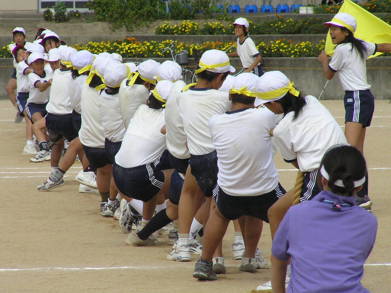 Tug of war